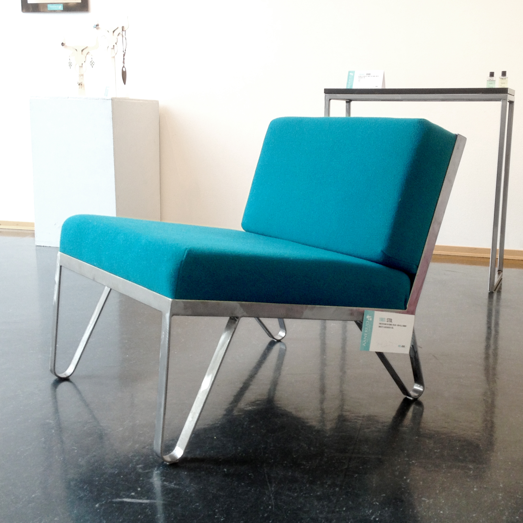 The first ever created 1983-chair, by Aanerud Industries.